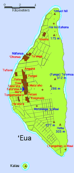 map of ʻEua, southern Tonga, Pacific Ocean